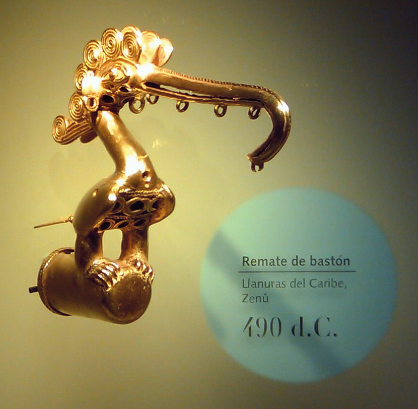 Cane head, Zenú (Sinú) Culture, 490 A.D., today Colombia; Gold Museum, Bogota